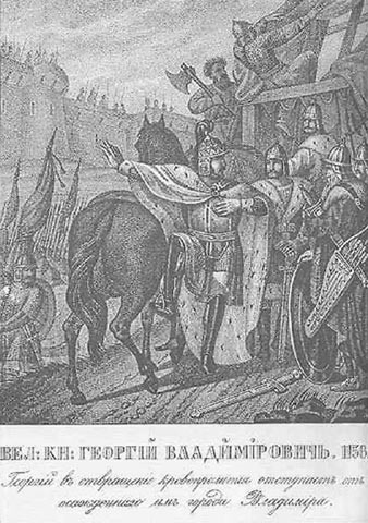 Grand Duke Yuri Dolgoruki